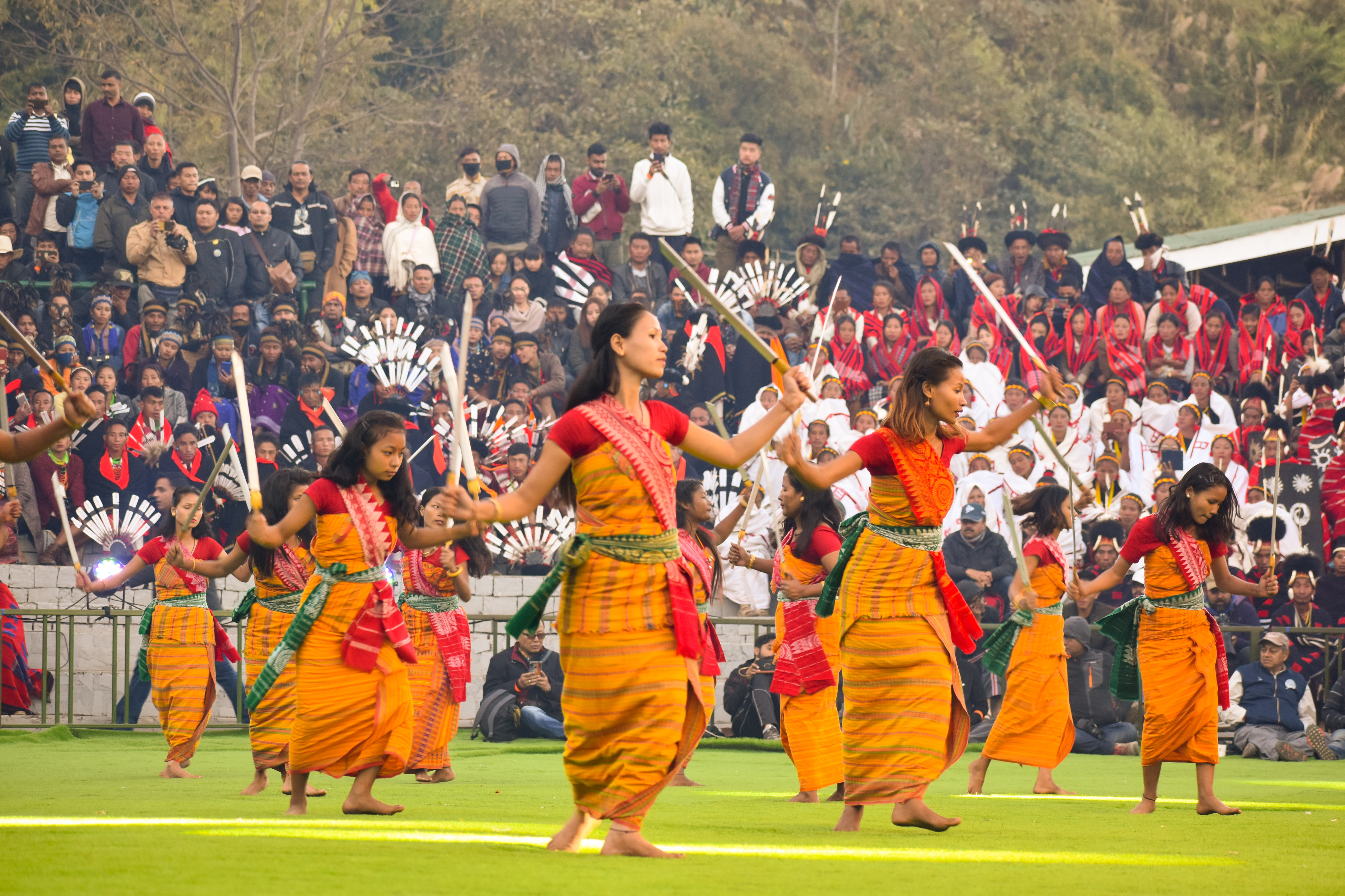 The picture was clicked at Kisama Heritage Village at Hornbill Festival 2019. It represents the participants performing their folk dance holding their tribal weapons. This photo has been taken in the country: India